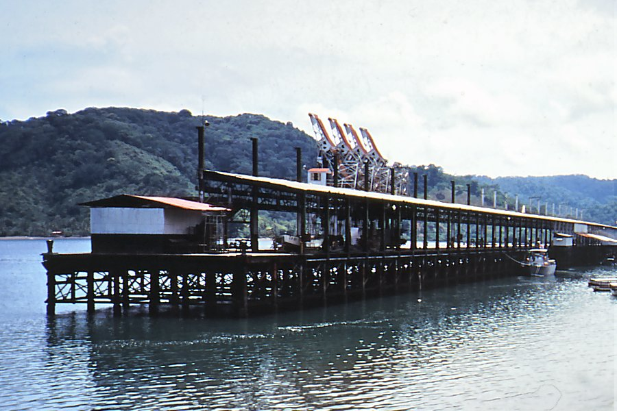 Port facilities in Golfito, Puntarenas, Costa Rica